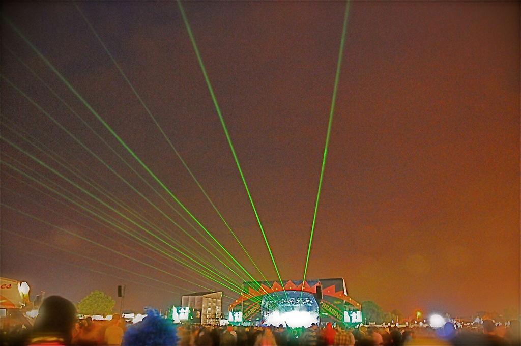 Laser show during a Bloc Party performance at the Reading Festival 2008.